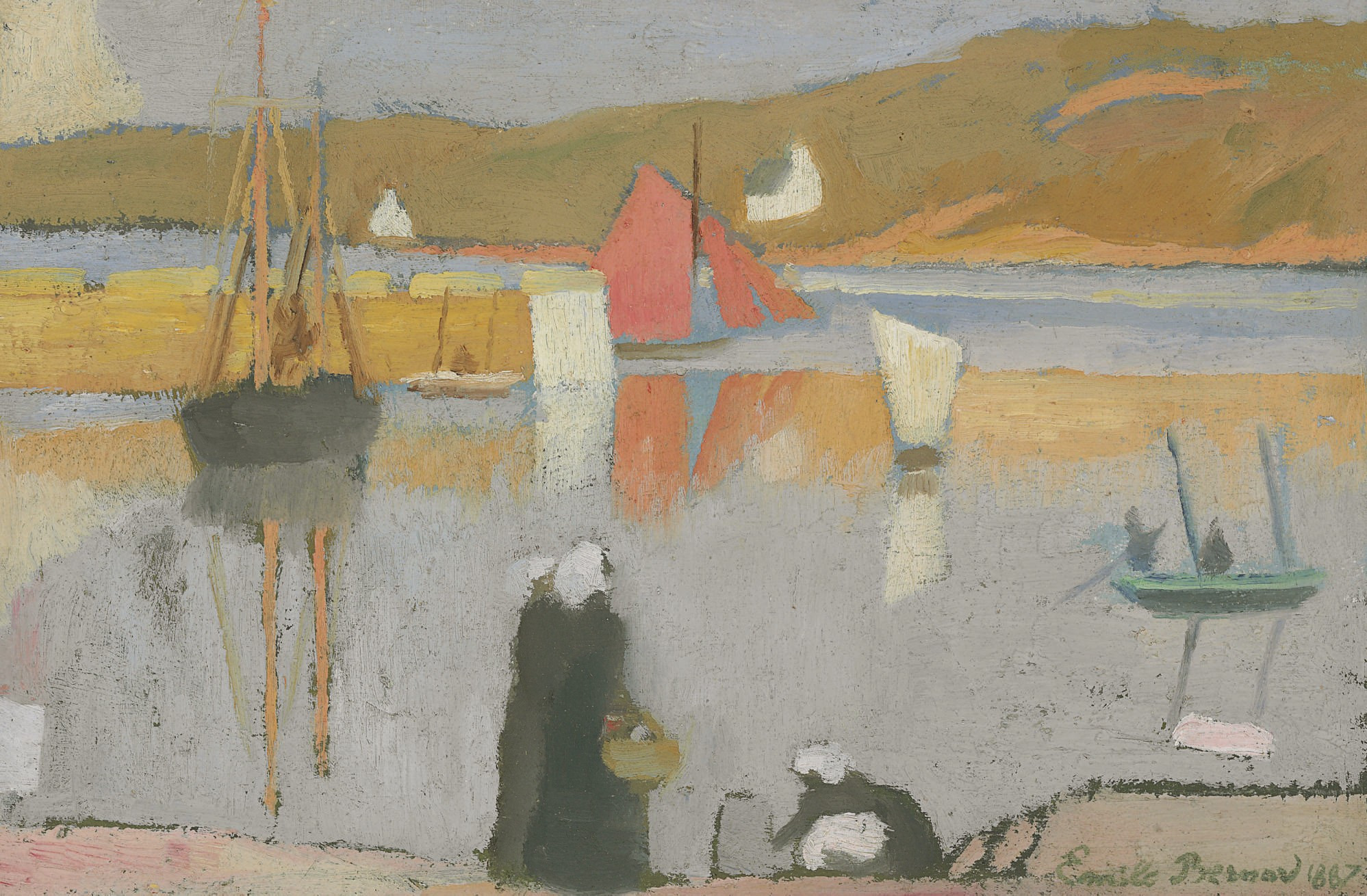 Le port à Saint-Briac. Signed and dated 'Emile Bernard 1887', oil on board, 19 x 28.9 cm